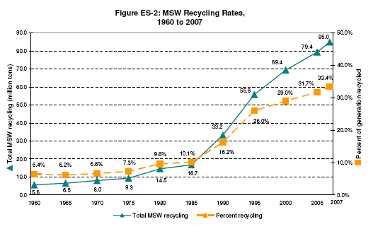 History of municipal solid waste generation and recovery (1960 - 2007)